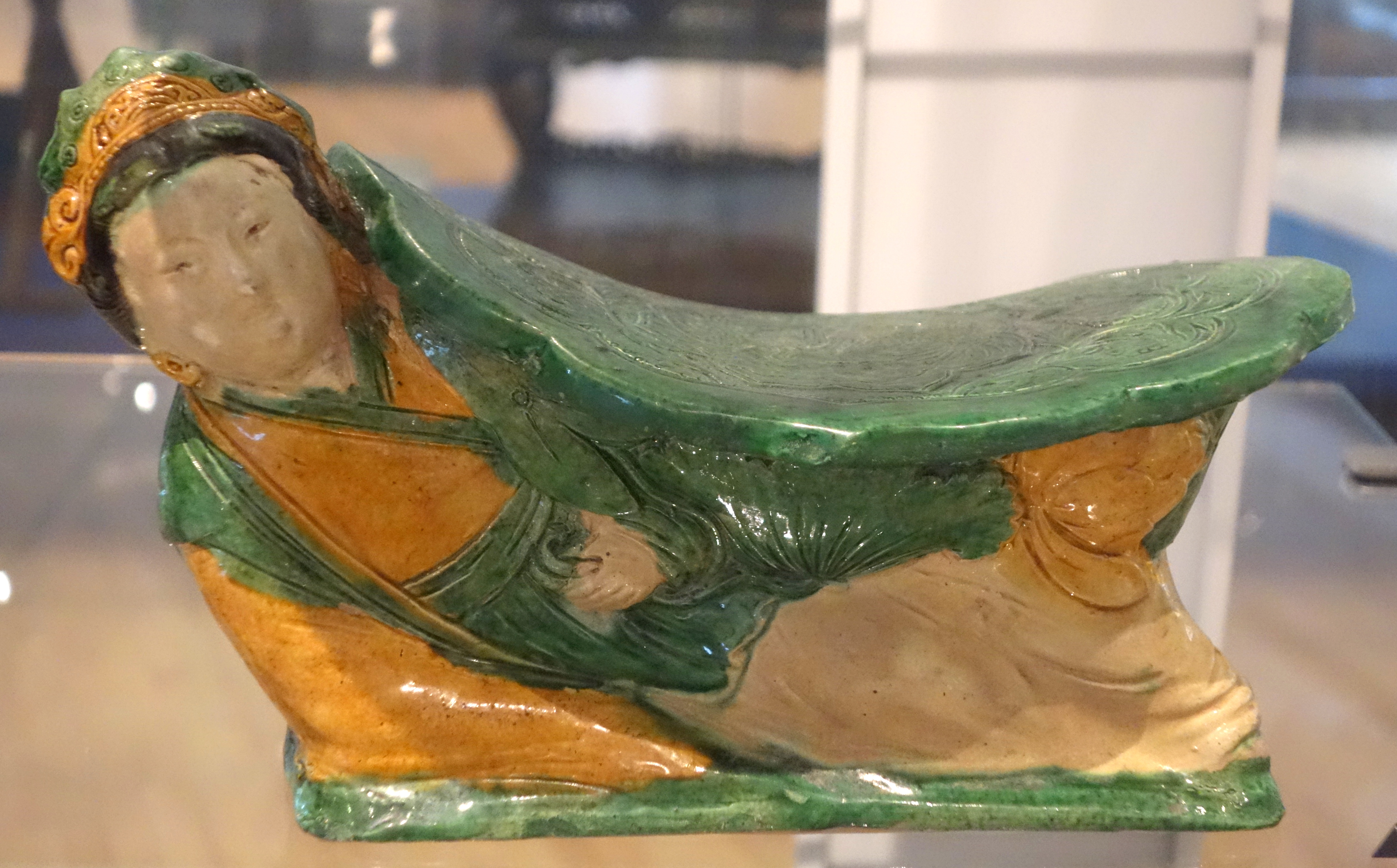 Exhibit in the Royal Ontario Museum, Toronto, Ontario, Canada. This work is old enough so that it is in the public domain.